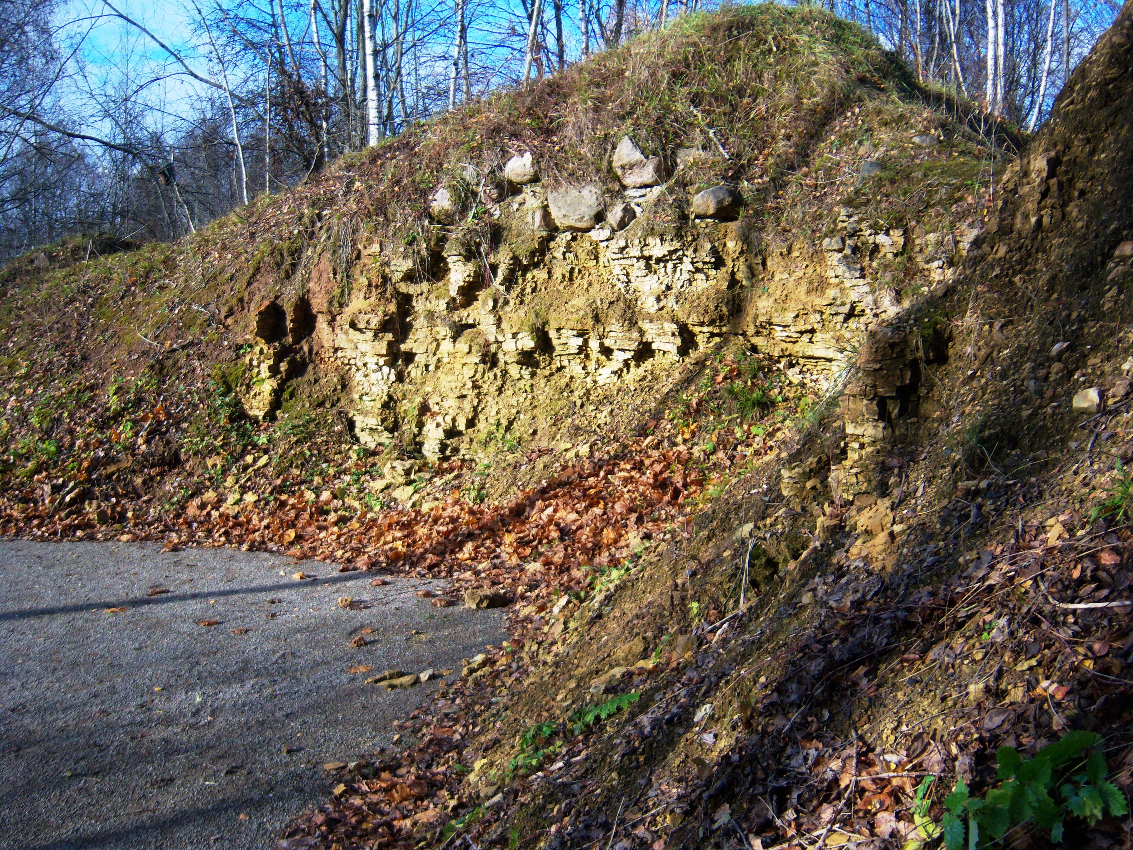 Exposure by Lėvuo River in Stirniškiai, Kupiškis District, Lithuania